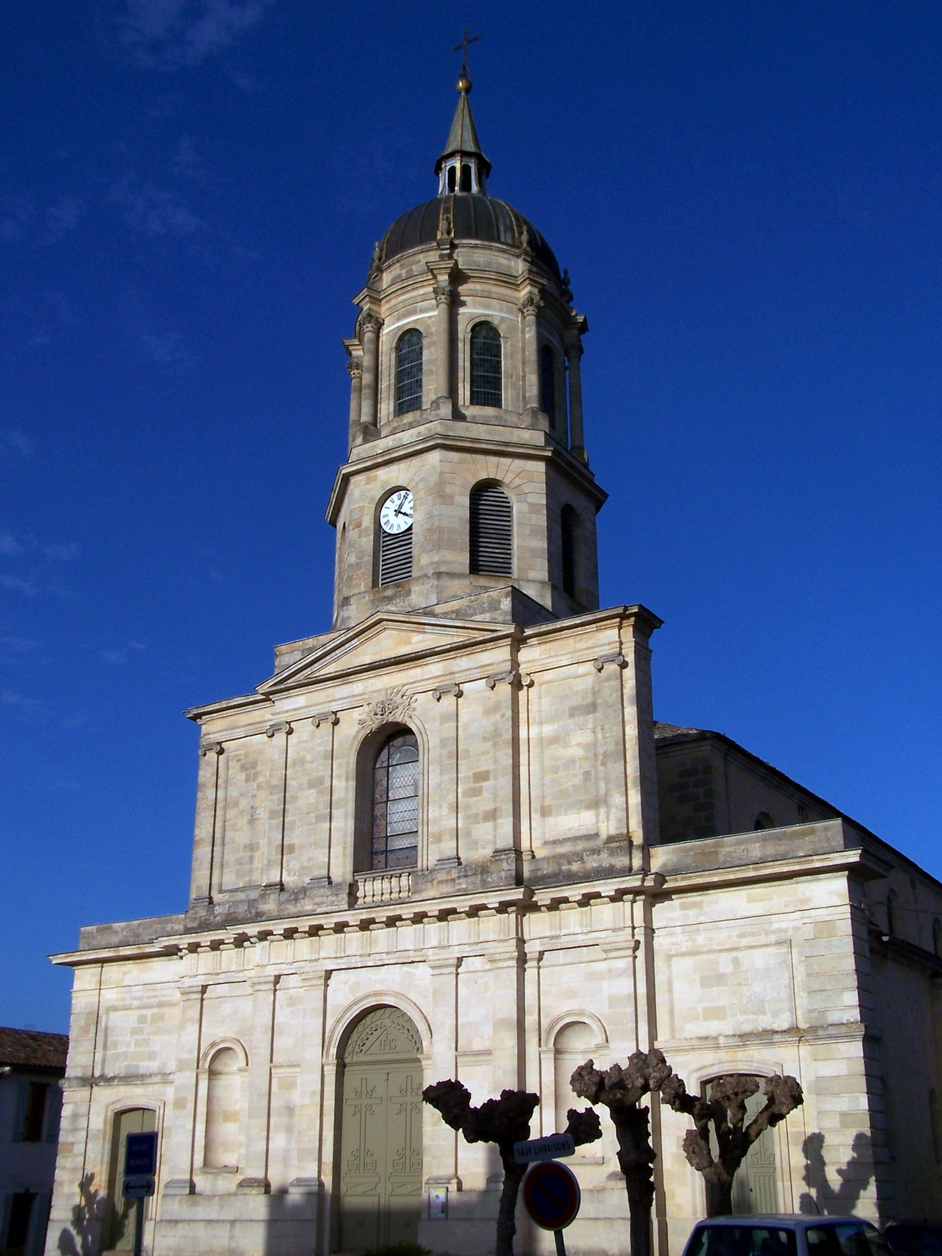 Saint Vincent church of Preignac (Gironde, France)